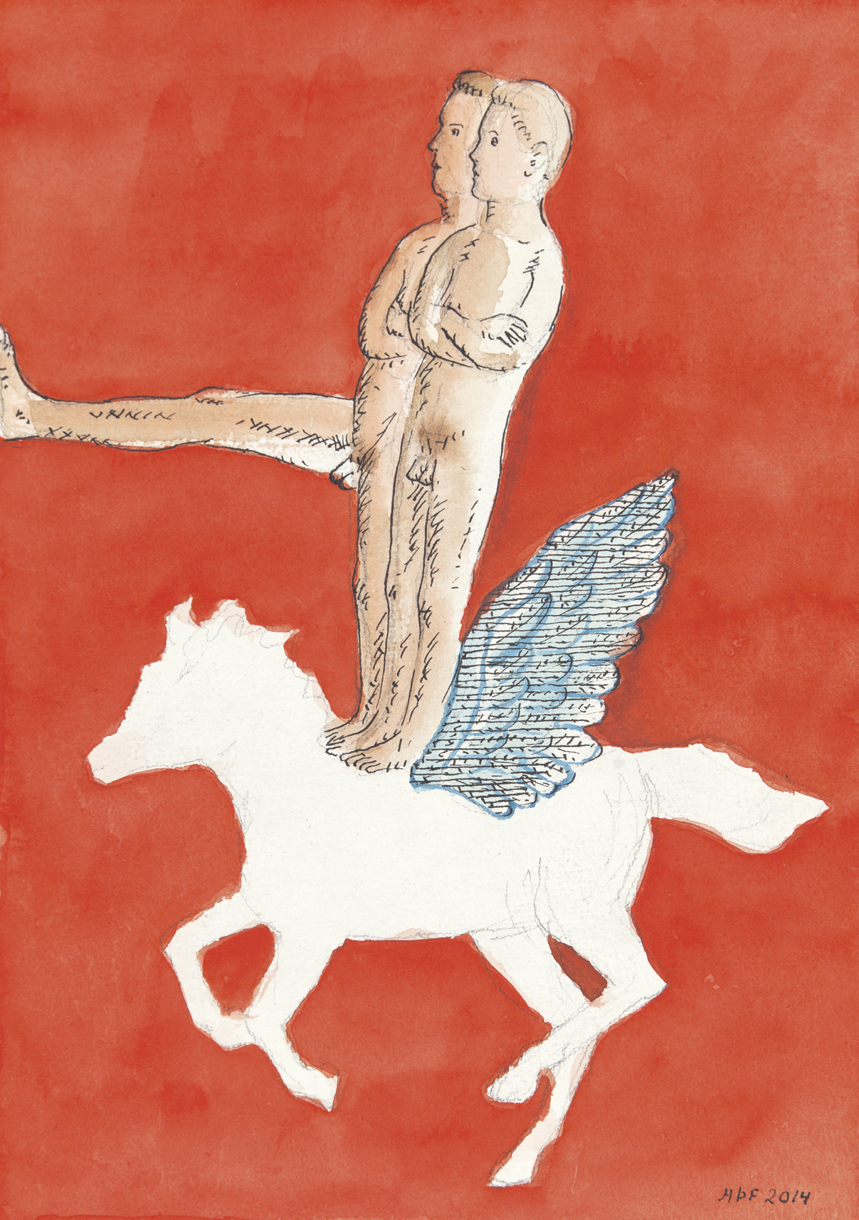 Watercolour, 2014, untitled by Icelandic artist Helgi Friðjónsson. Copyright 2014 by the artist, Creative Commons Attribution 3.0